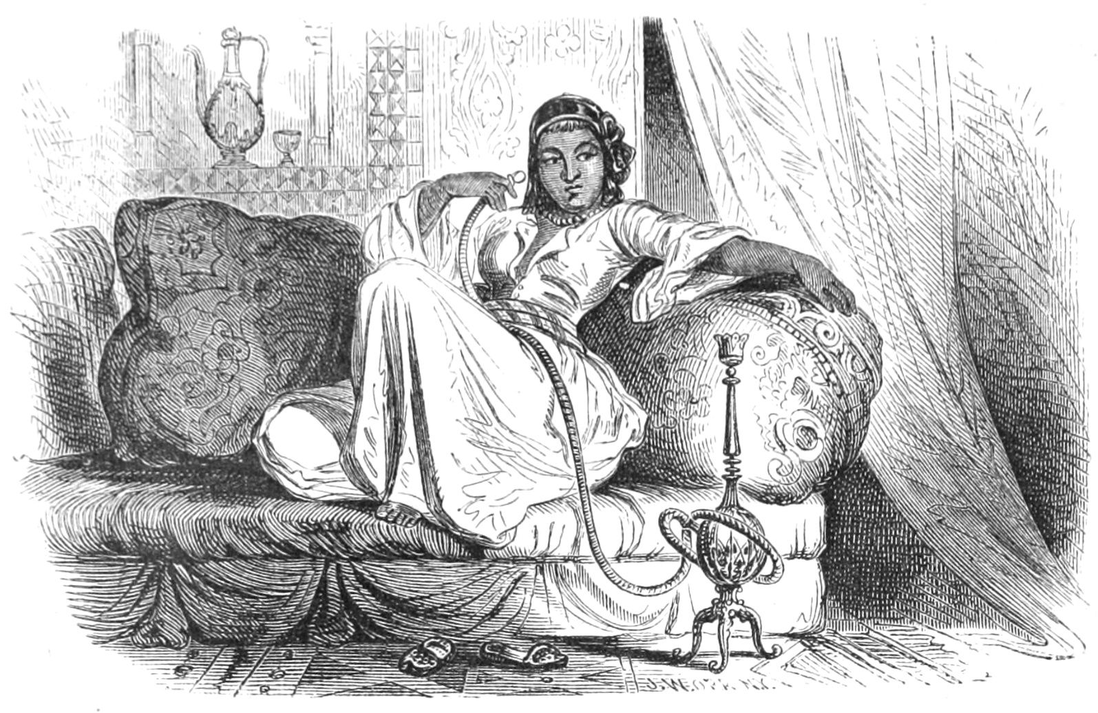 Illustration from an article on “The History and Mystery of Tobacco,” 1855